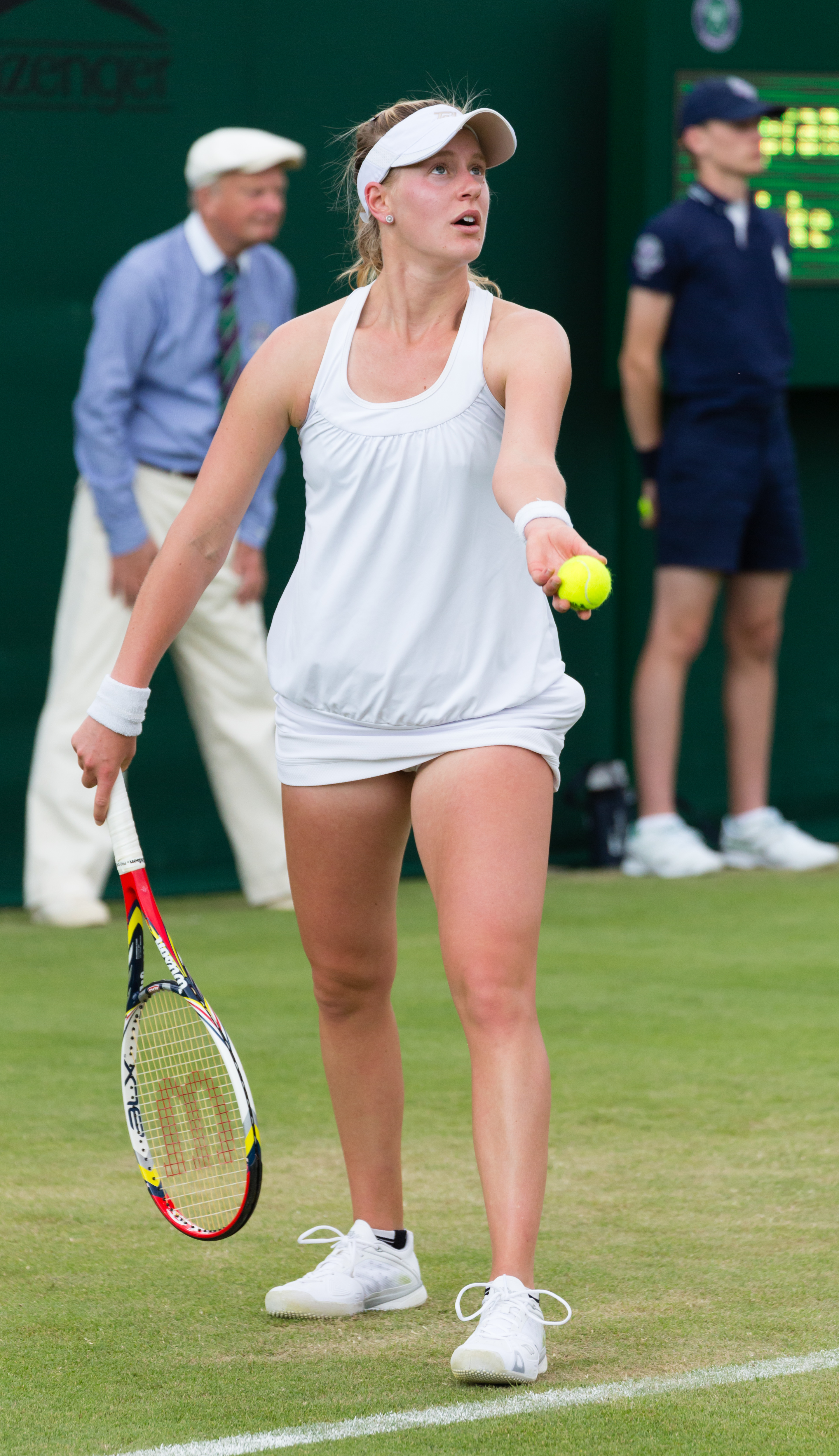 Alison Riske playing in her first round match against Romina Oprandi at the 2013 Wimbledon Championships.